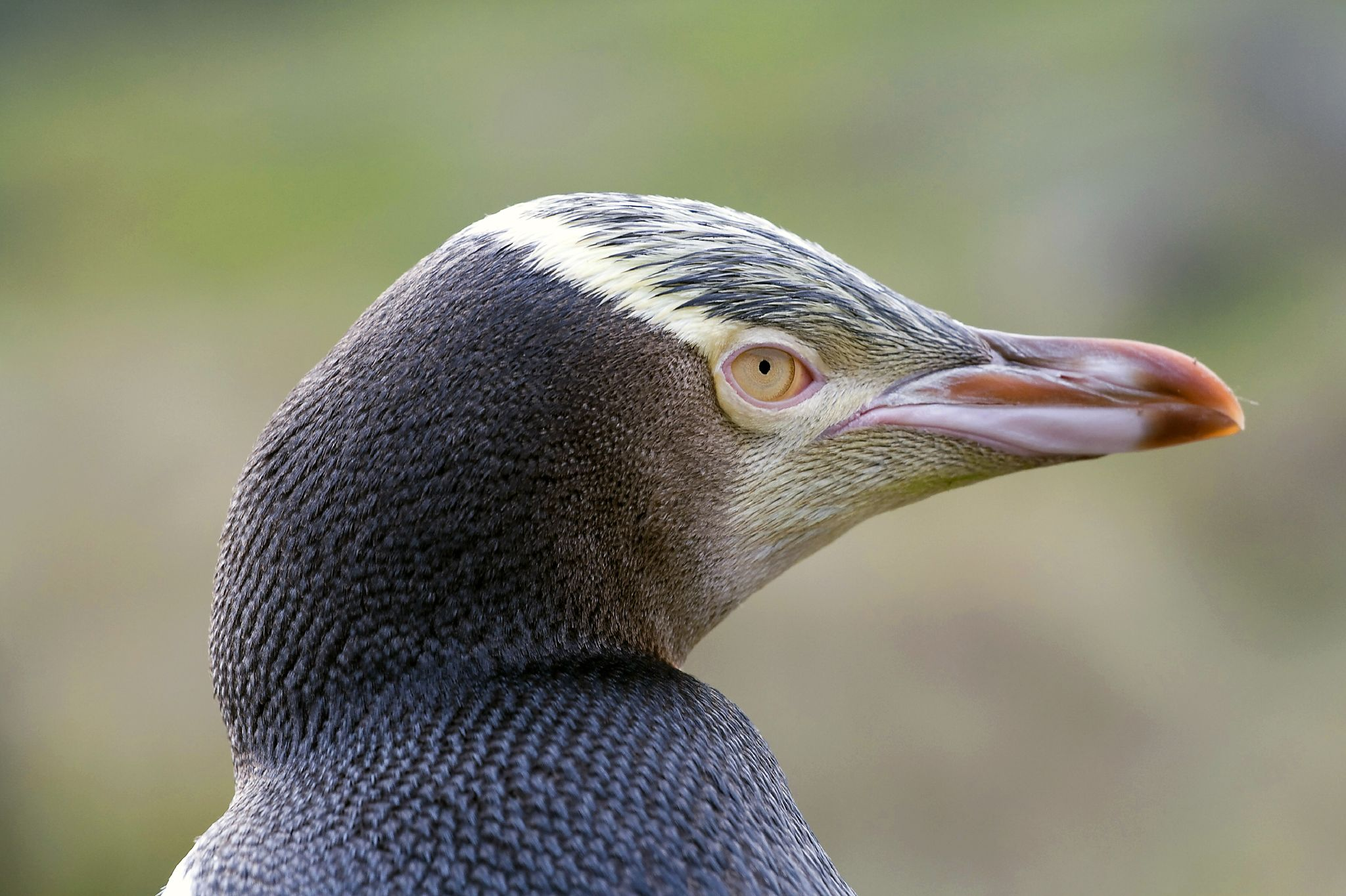 Yellow-eyed Penguin (Megadyptes antipodes) in Otago Peninsula, South Island, NZ